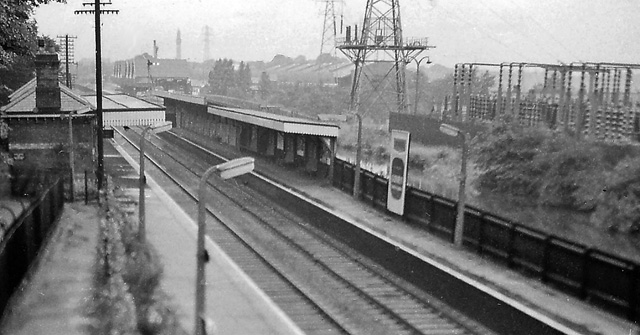 Bournville Station. View northward, towards Birmingham New Street; ex-Midland Birmingham - Bristol main line (Birmingham West Suburban section), now electrified (to Redditch) -- seen in pouring rain. Worcester & Birmingham Canal is beside the line on right, Cadbury's Factory behind camera.